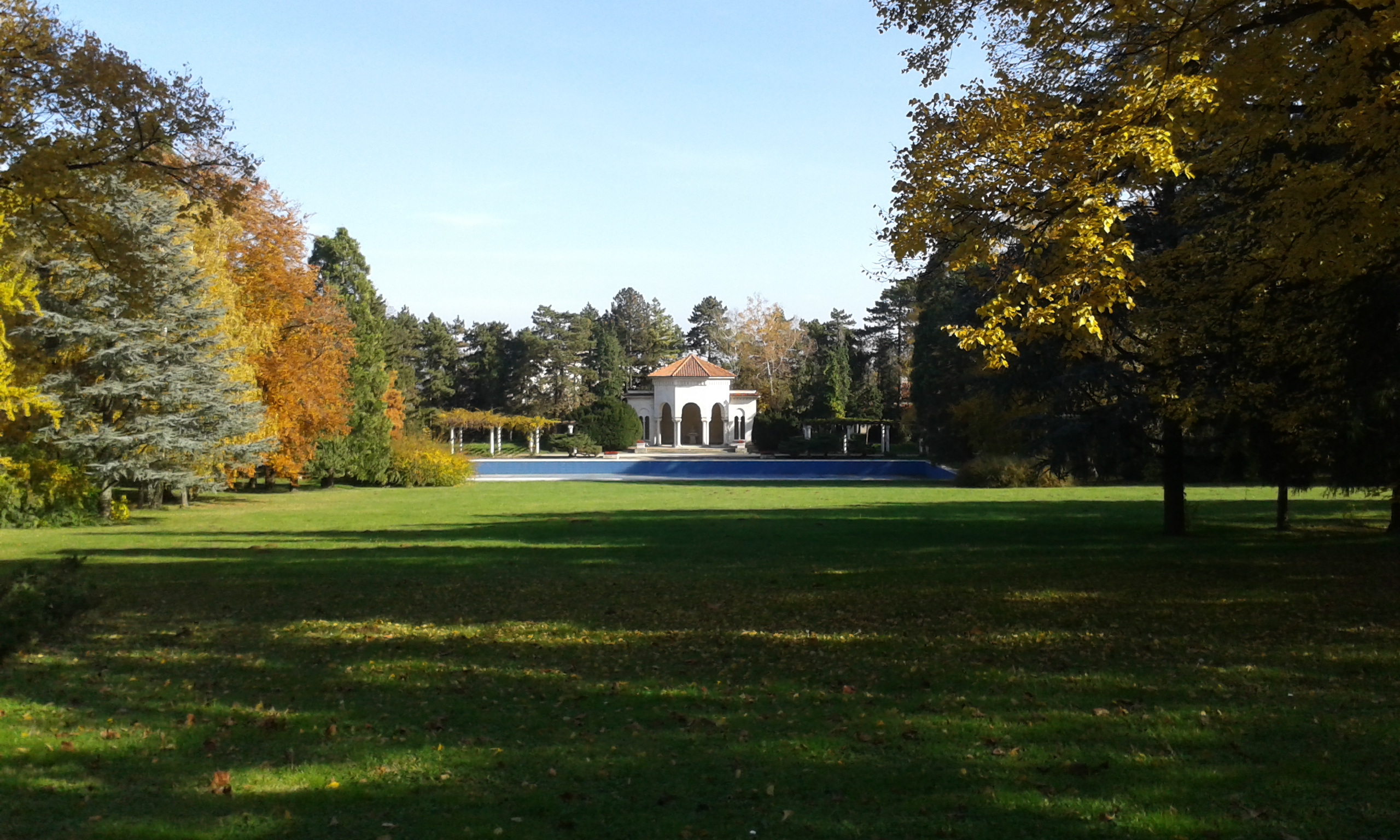 Bazen